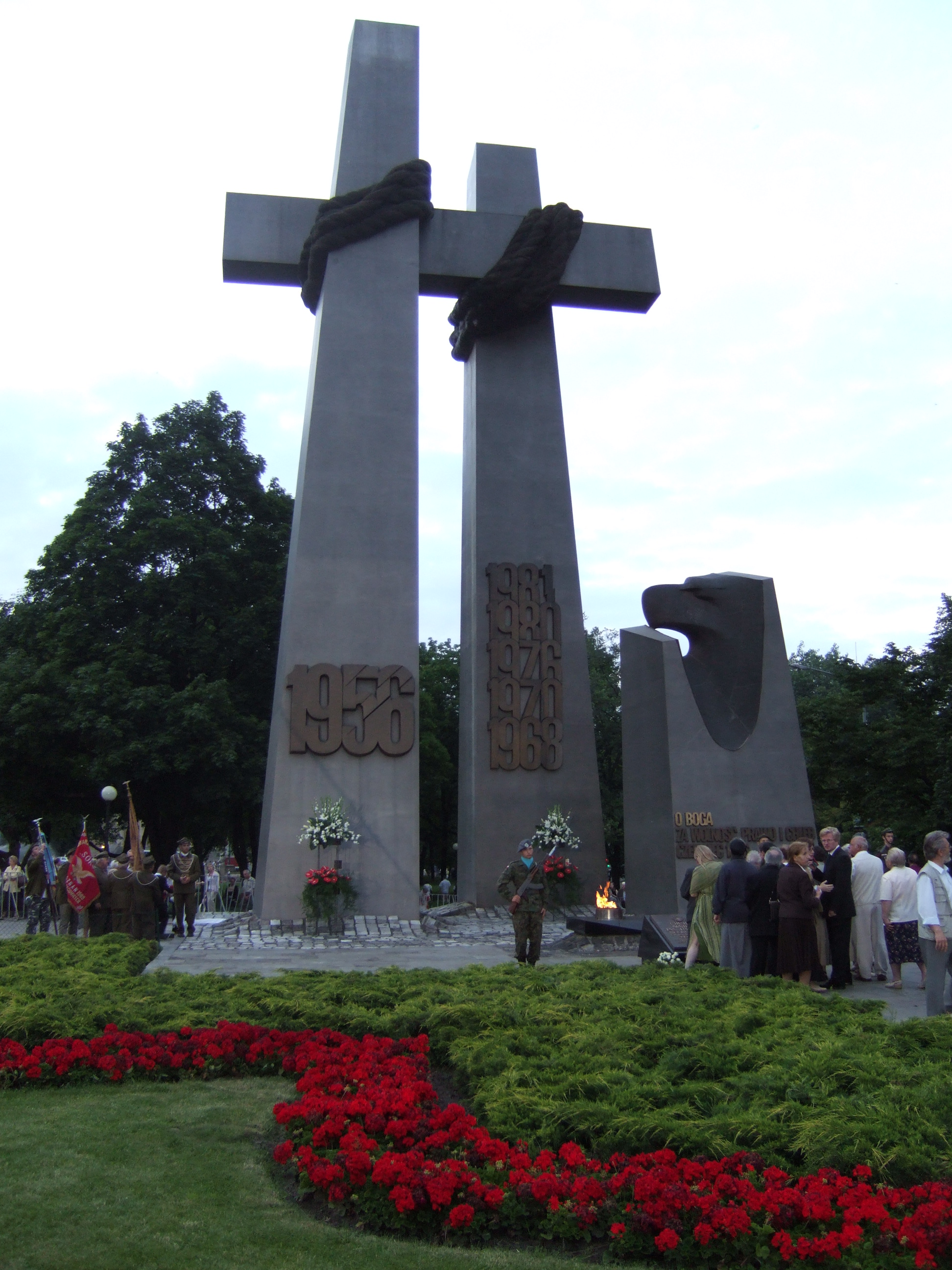 Monument od Poznań 1956 during golden jubilee.